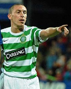 Photograph of Scott Brown versus FC Basle, pre-season 2007. Cropped from original to show only Brown.